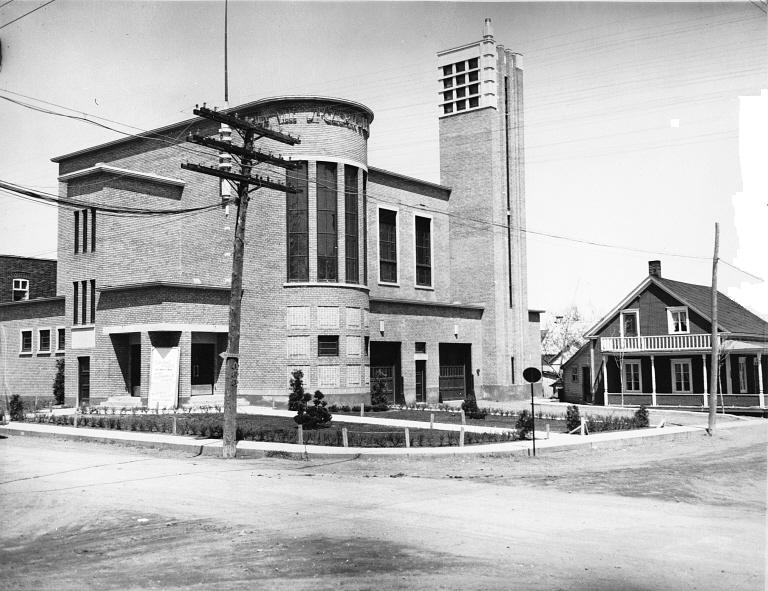 Photograph, Theatre in fire hall, St. Gabriel de Brandon, QC, 1930-40 Nelson Newbergher, Silver salts on film - Gelatin silver process, 8 x 10 cm